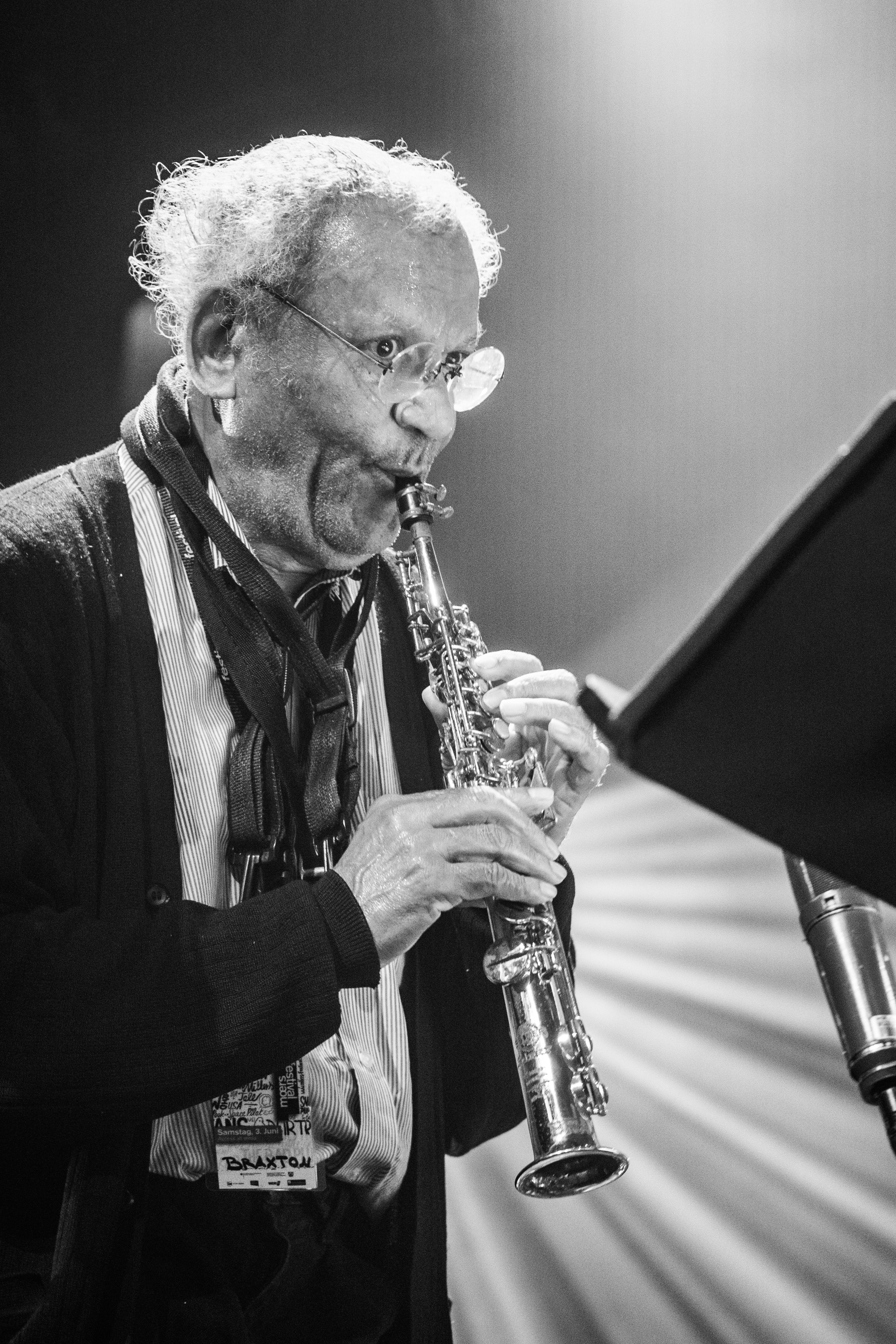 American jazz musician Anthony Braxton at the Moers Festival 2017